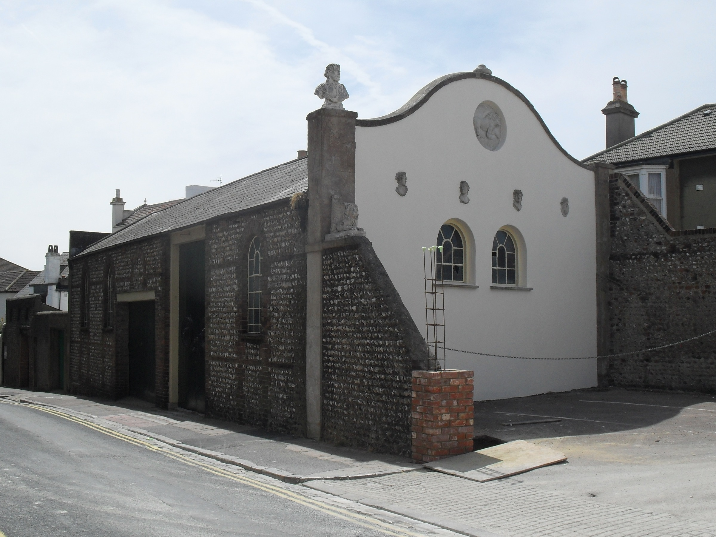 Coach House, 23 Clifton Hill, Brighton, City of Brighton and Hove, England. Built in about 1852 for one of the adjacent villas. Listed at Grade II by English Heritage (IoE Code 493829)